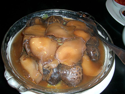 Chinese abalone cuisine; Braised abalone, with Chinese black mushrooms